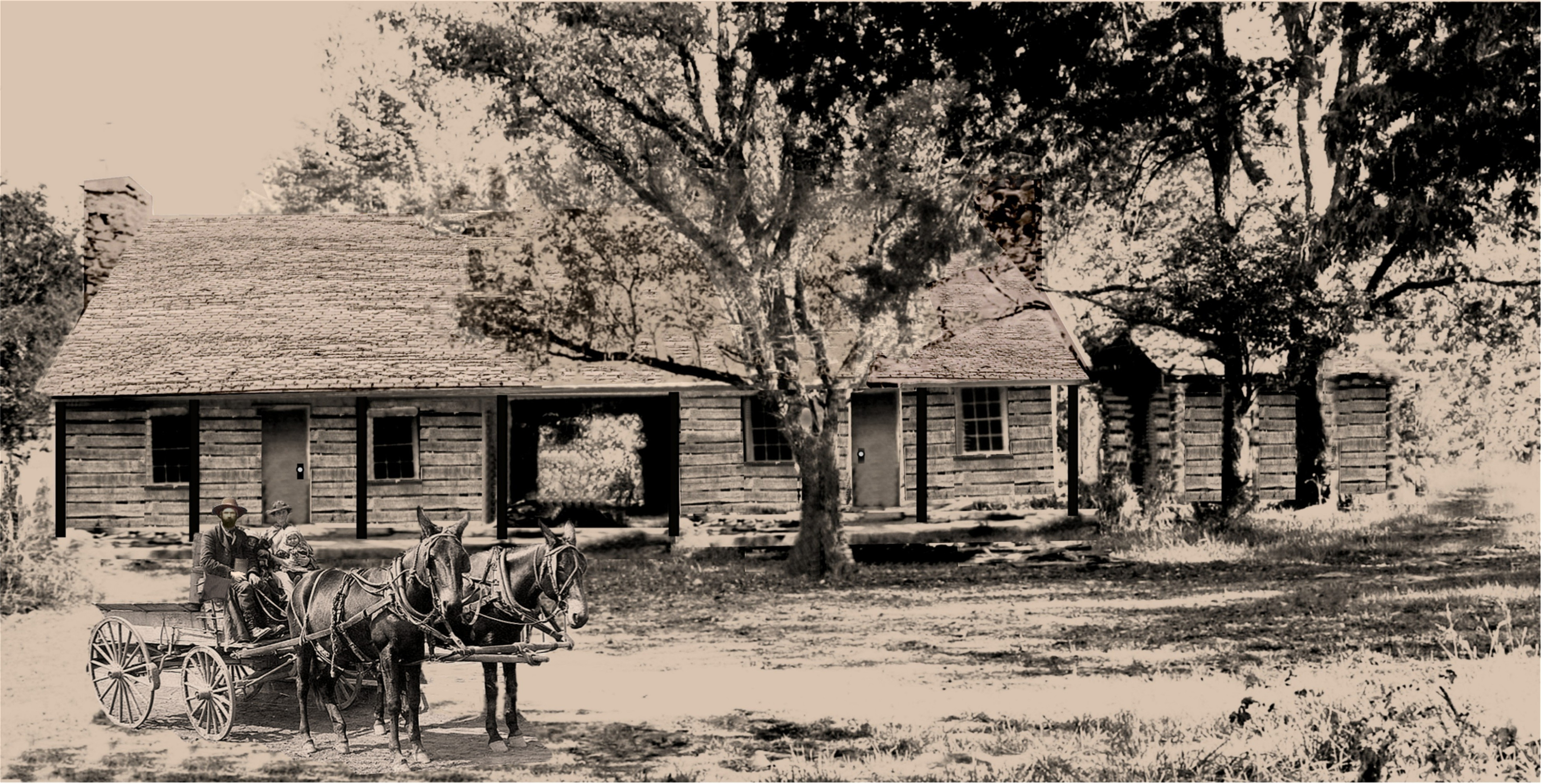 This is a rendering by Lloyd Burl Brown (a descendant) showing how the house would have looked, in its original hewn log and Arkansas dog trot style (before the various modernizations that were made over the years).